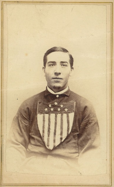 Baseball card of Bill Craver, a player for the Unions of Lansingburgh.